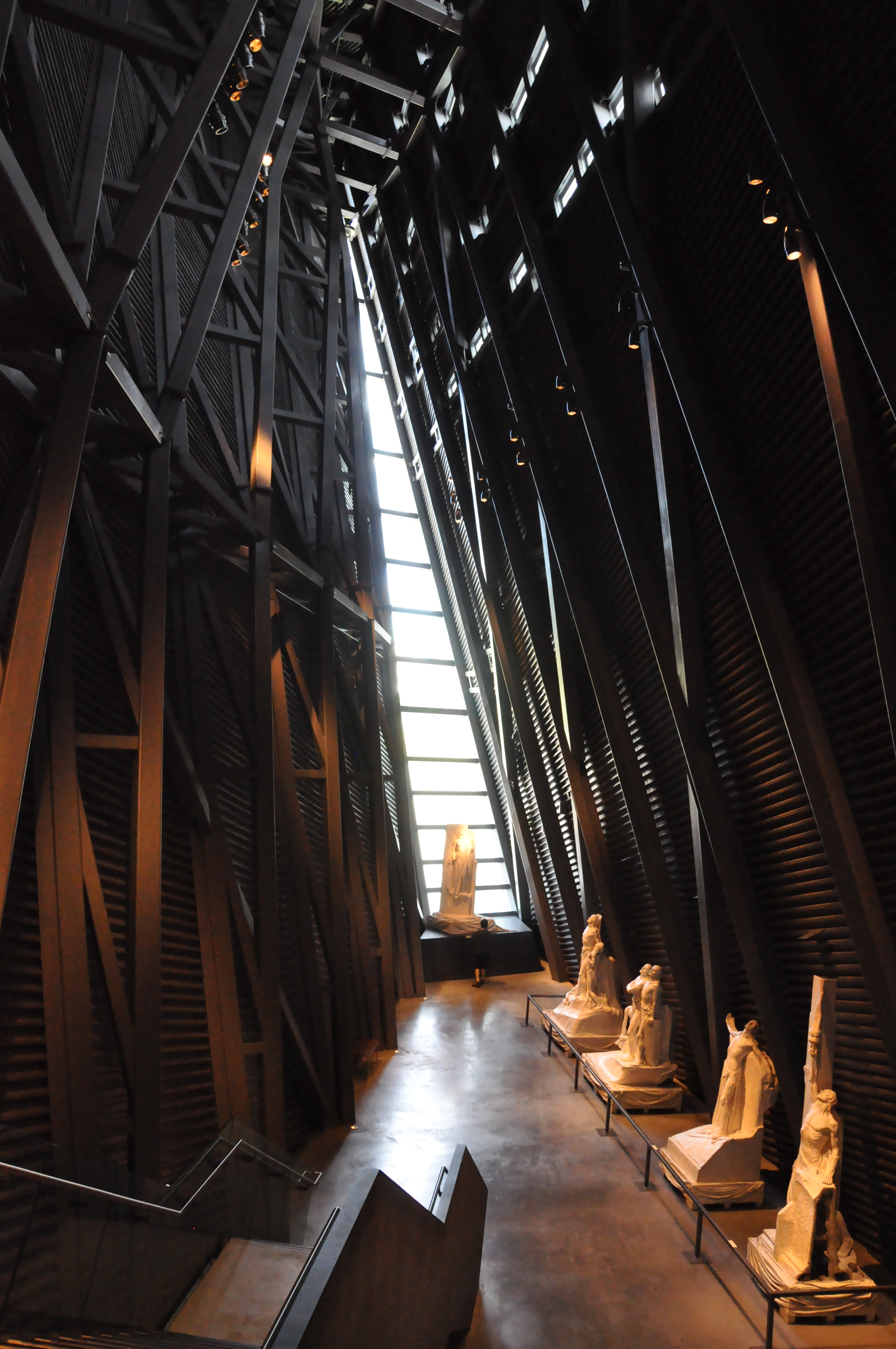 Regeneration Hall, Canadian War Museum, Ottawa, Canada. The window overlooks the Canadian parliament buildings. The statues are plaster maquettes used by Walter Seymour Allward to design the Canadian National Vimy Memorial at Vimy, France.